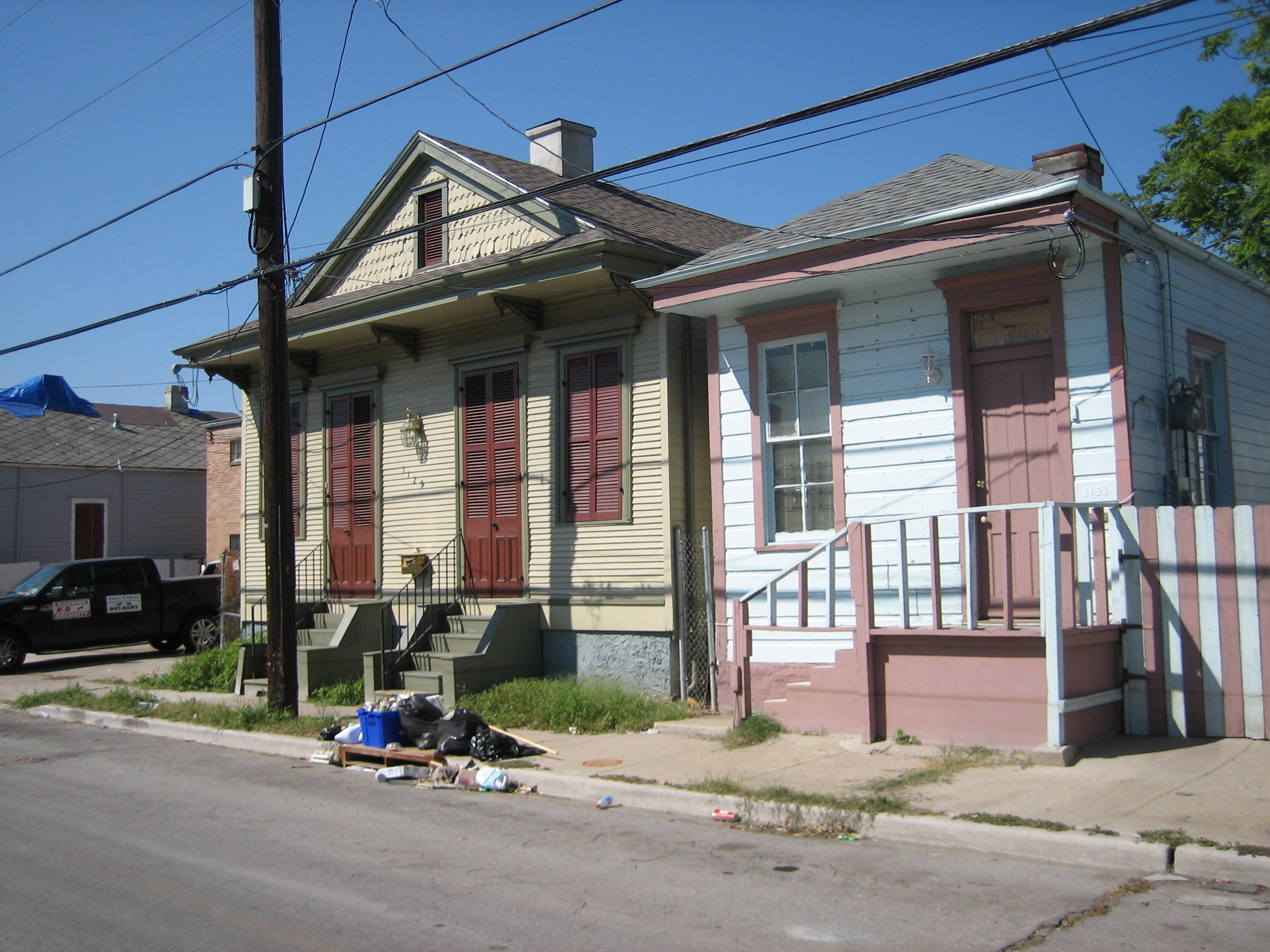 New Orleans after Hurricane Katrina: Kaufman Family home in Treme on North Villere Street. Flood line visible on stoops and the fence shows a flood level of about half a meter of water above the curb, not high enough to get inside of the old style raised houses, but making them islands in the shallow flood waters for weeks.